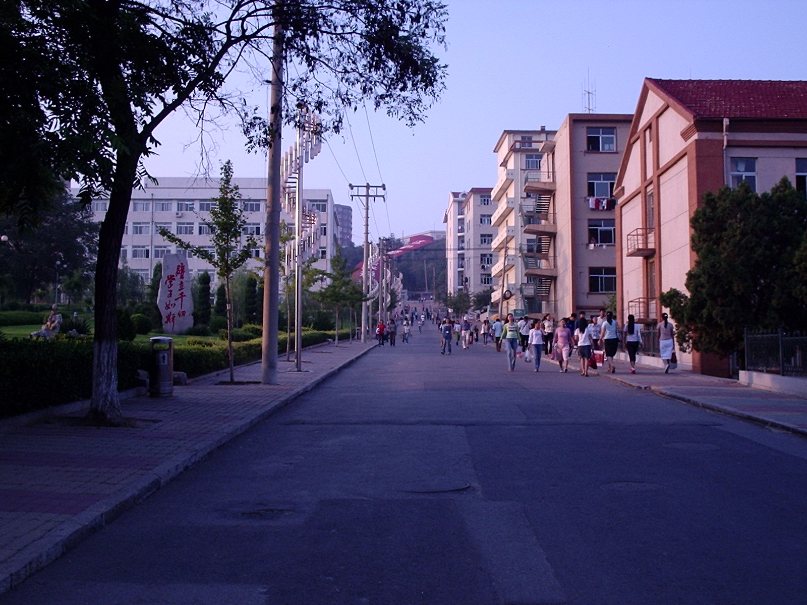 The main path of the north campus of Liaoning Normal University, Dalian, China, taken just as the students were returning from lunch at the canteen.